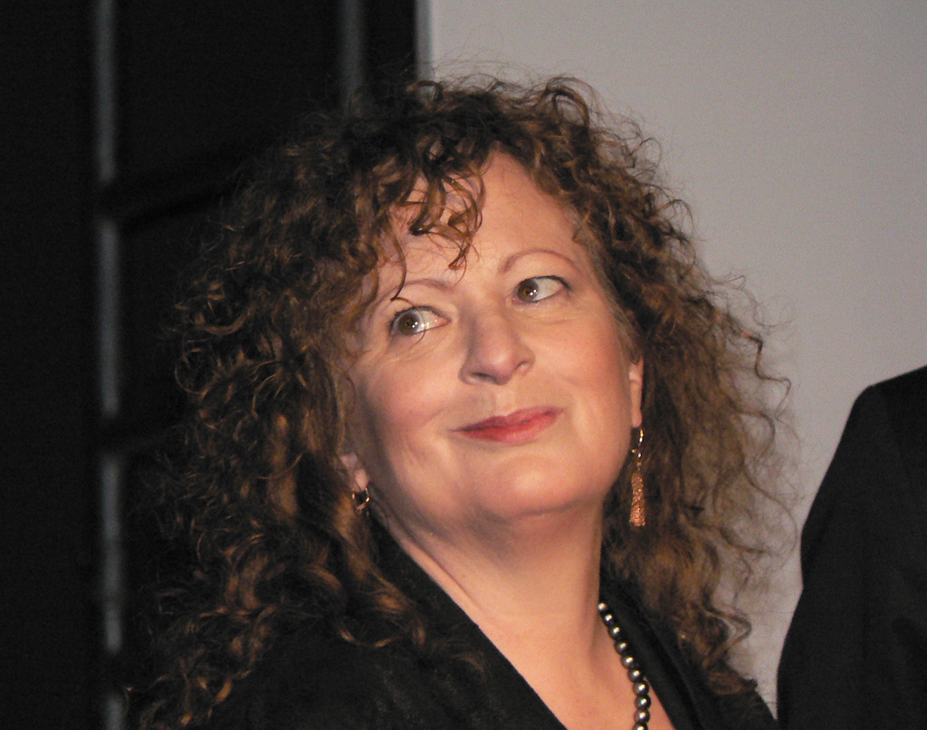 photographer Nan Goldin